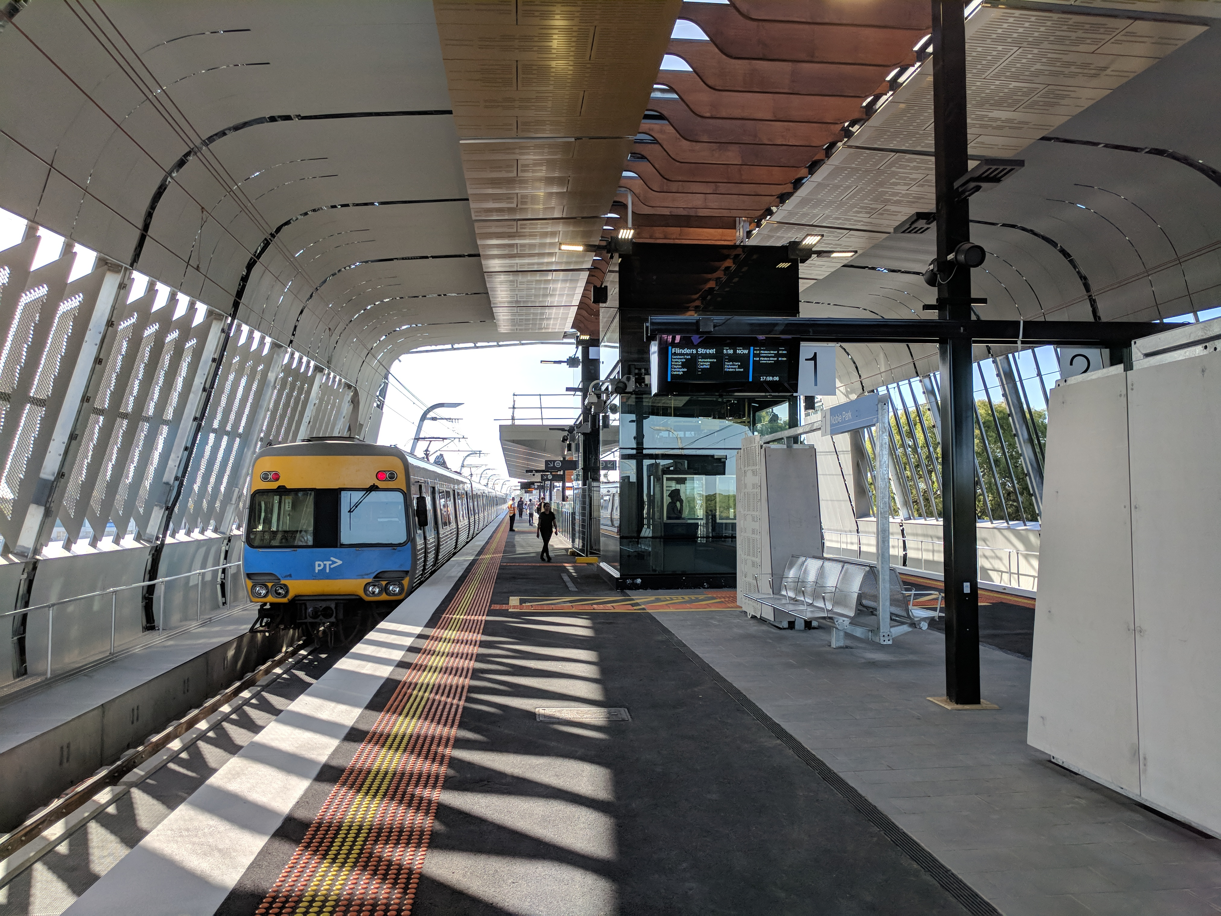 New Noble Park railway station February 2018